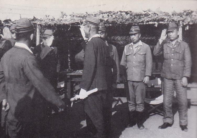 Admiral Ugaki saluting before his final kamikaze mission.